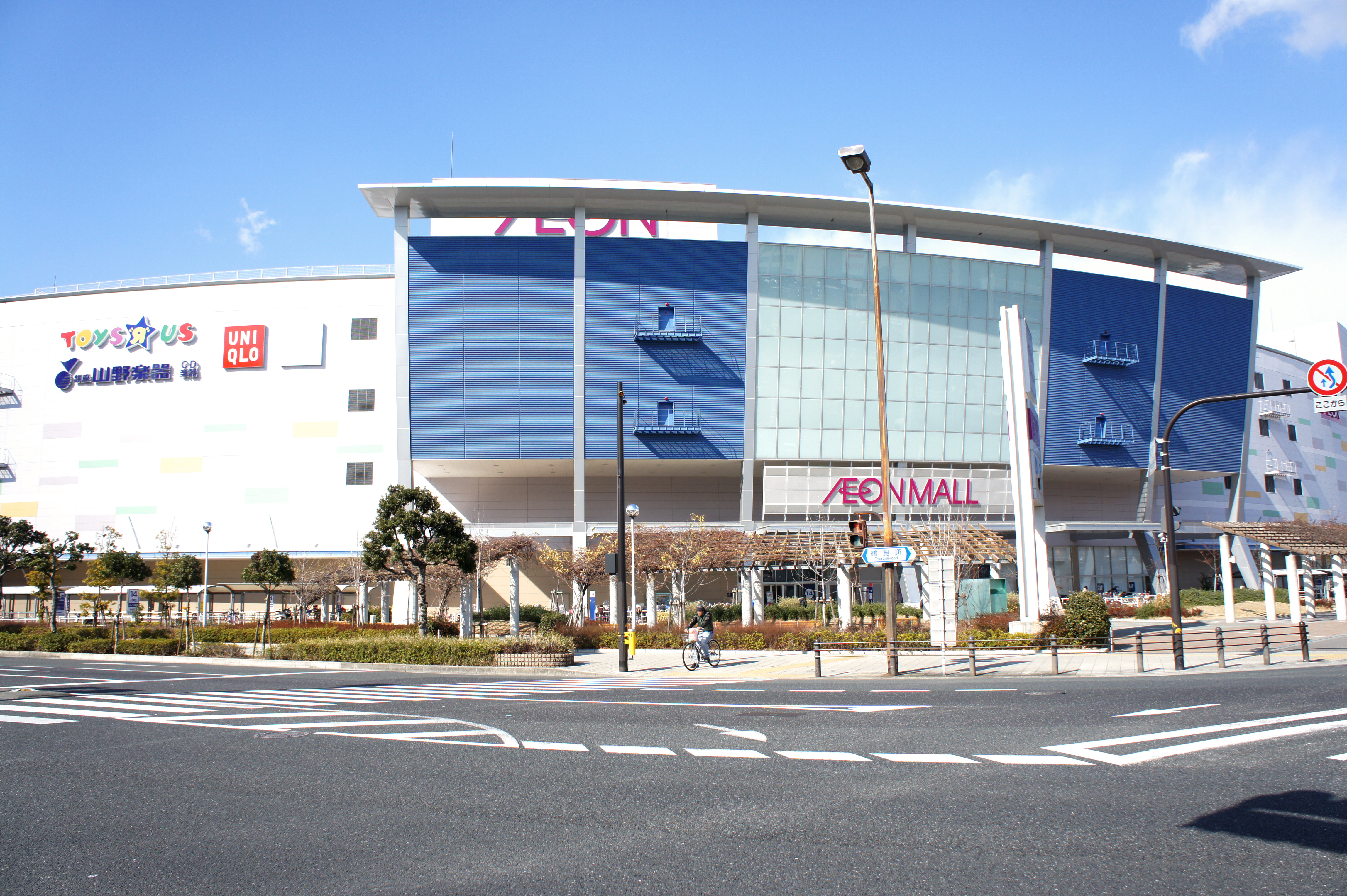 AEON MALL Tsurumi Ryokuchi, 4-17-1 Tsurumi Tsurumi-Ku Osaka-City Osaka Japan.